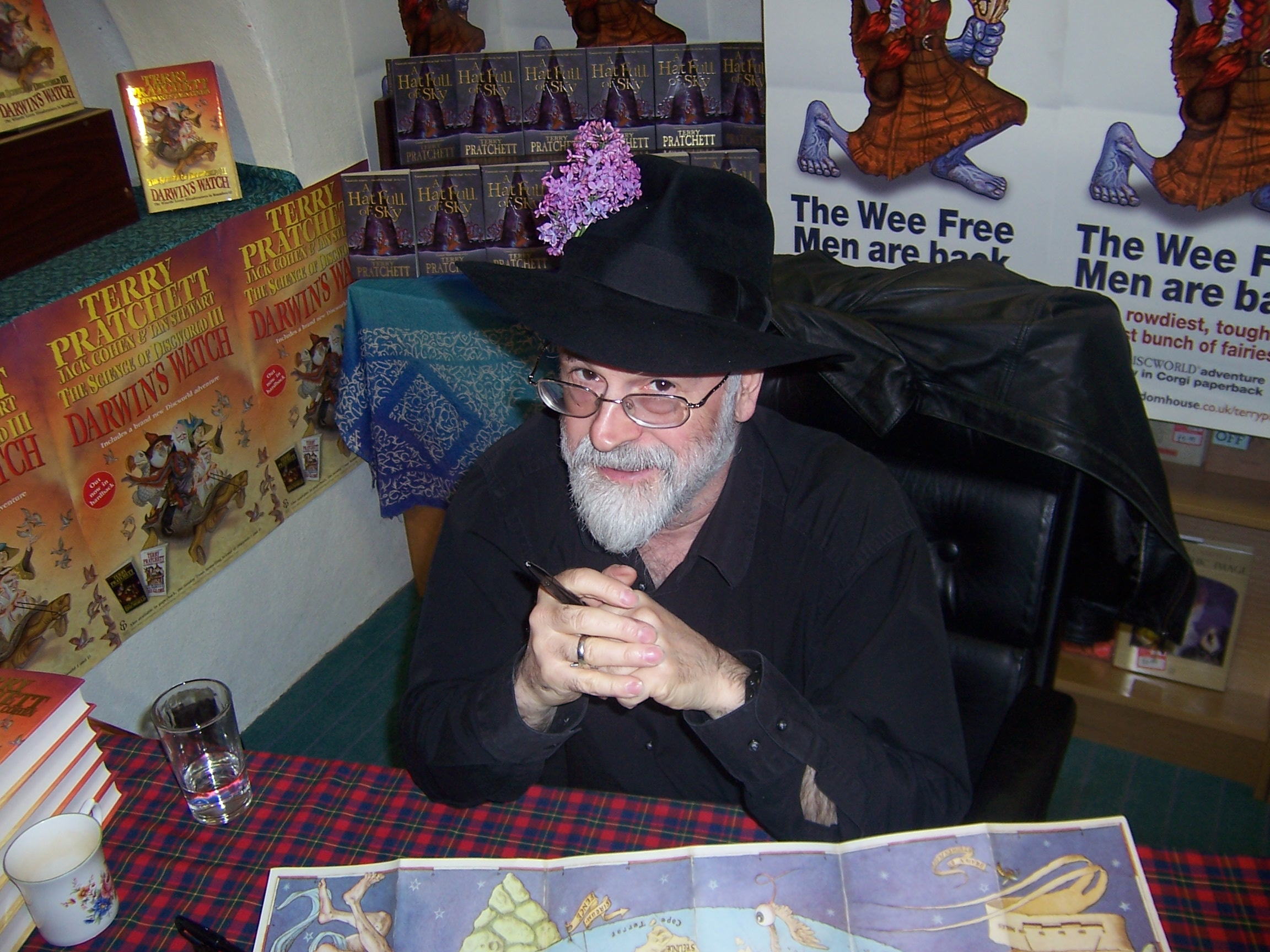 Terry Pratchett kindly posed with his hat for Myrmi.